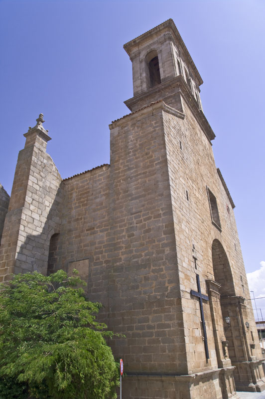 Iglesia de Belálcazar